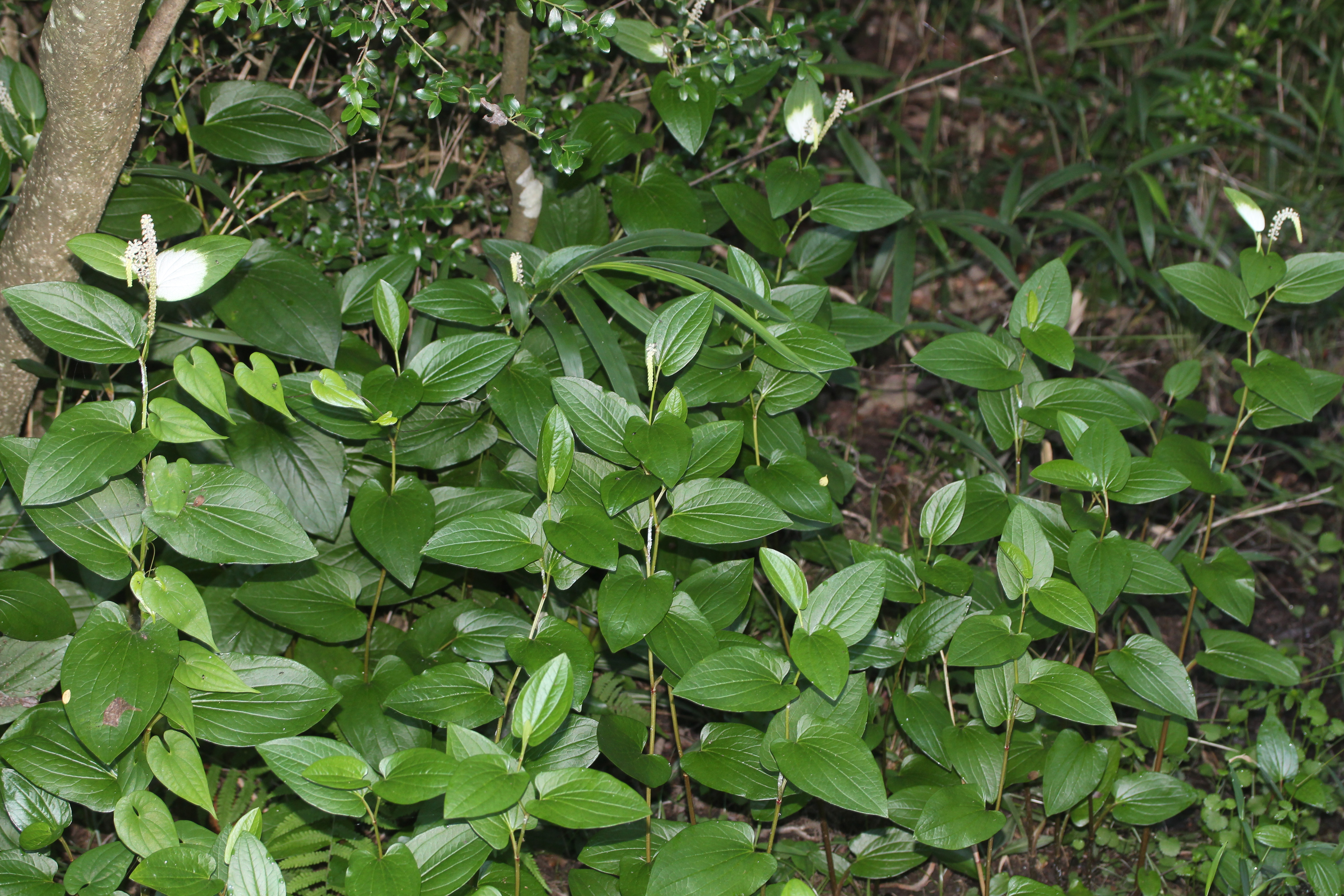 Saururus chinensis in Imō Wetland, Toyohashi, Aichi prefecture, Japan.